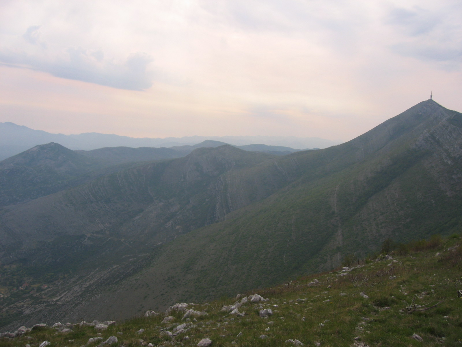 Peak of Leotar